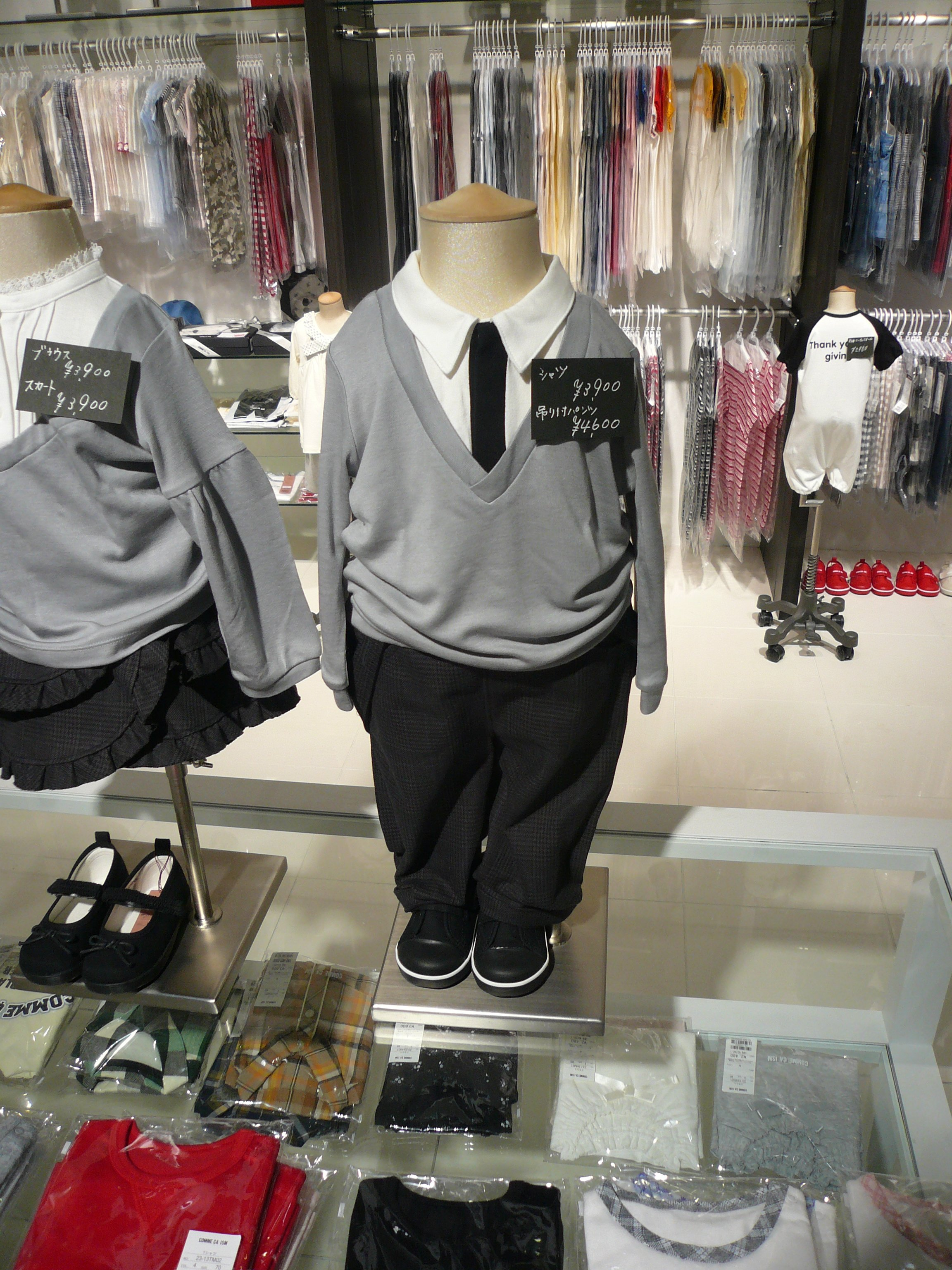 This photo was taken on September 2, 2007 using a Panasonic DMC-FX07.